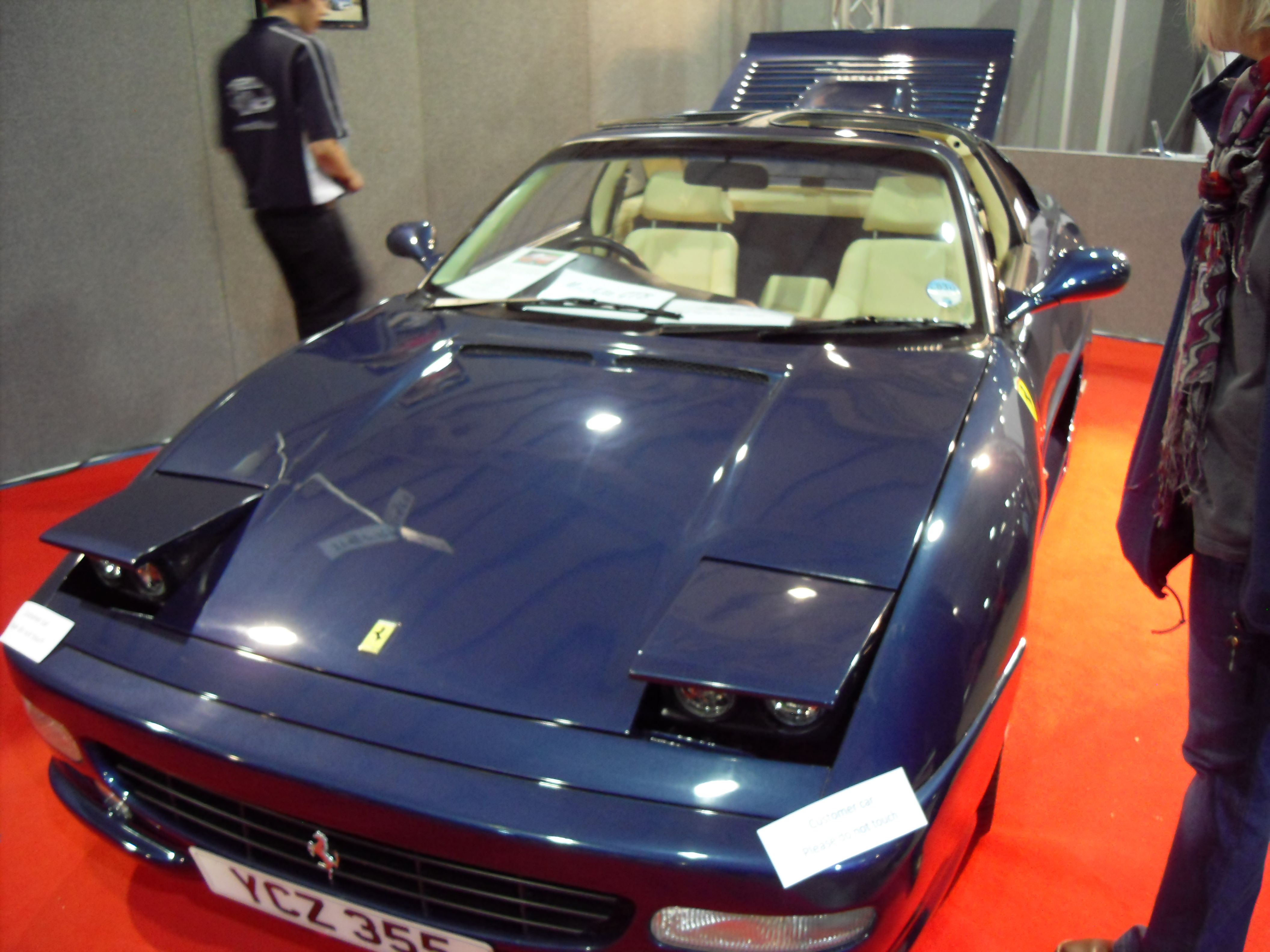 National Kit Car Show Stoneleigh 2011